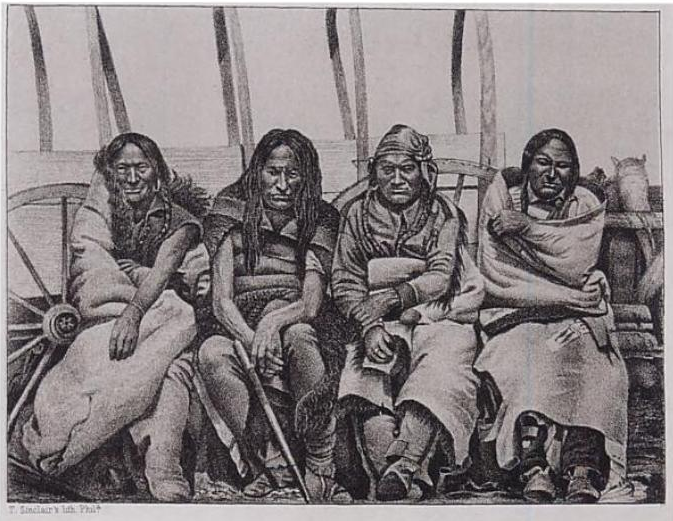 "Principal Chiefs of the Arapaho Tribe", engraving after a photograph by James D. Hutton, from "Contributions to the Ethnology and Philology of the Indian Tribes of the Missouri Valley" (Transactions of the American Philosophical Society, Volume 12) by Ferdinand V. Hayden, 1863.